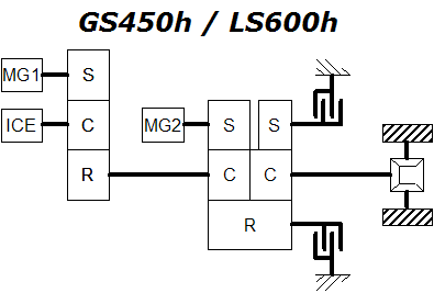 Created based on press releases describing the Transmission of the GS450h / LS650h without detail